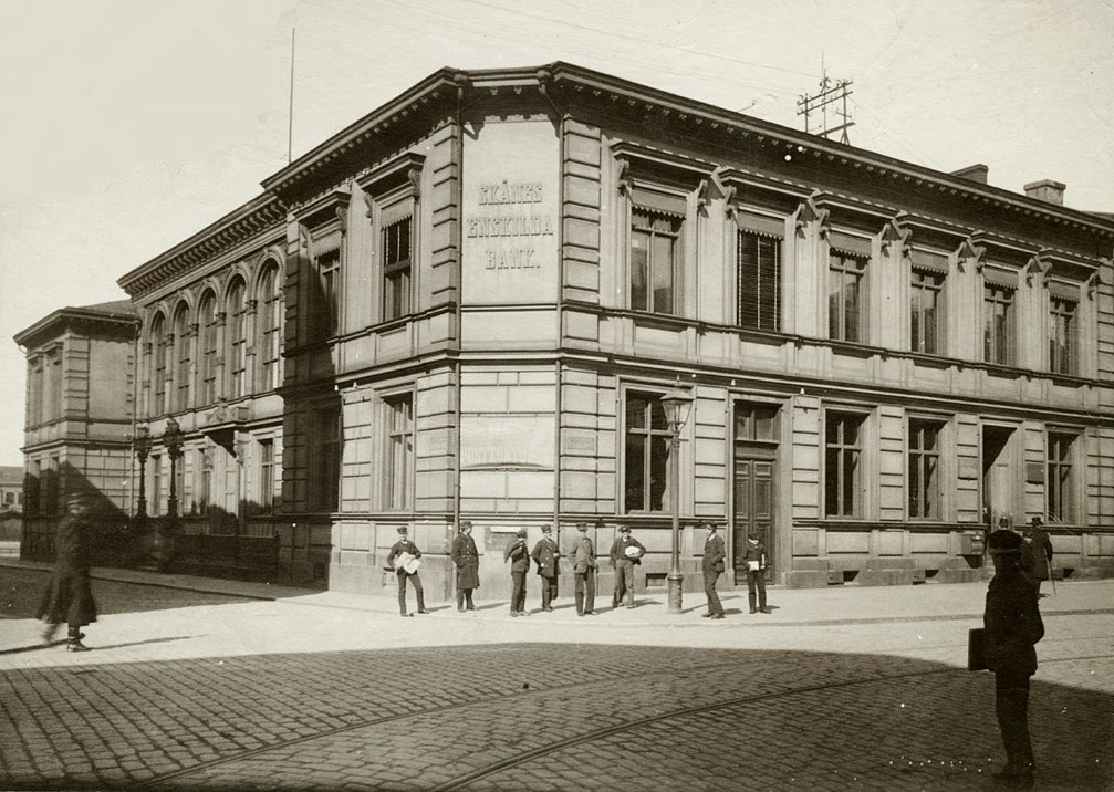 Private Bank of Skåne, on the corner of Östergatan and Bruksgatan streets in Malmö